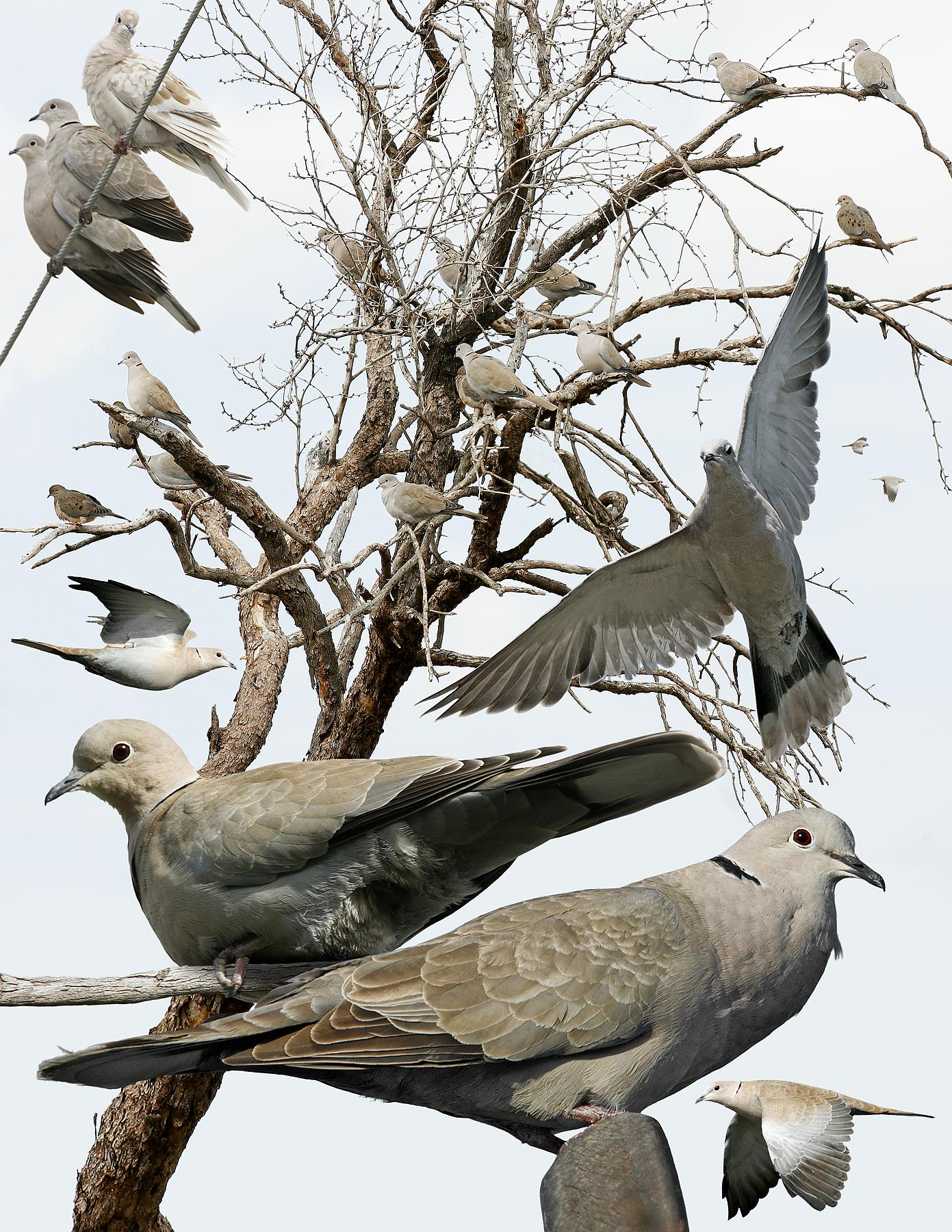 Eurasian Collared Dove From The Crossley ID Guide Eastern Birds